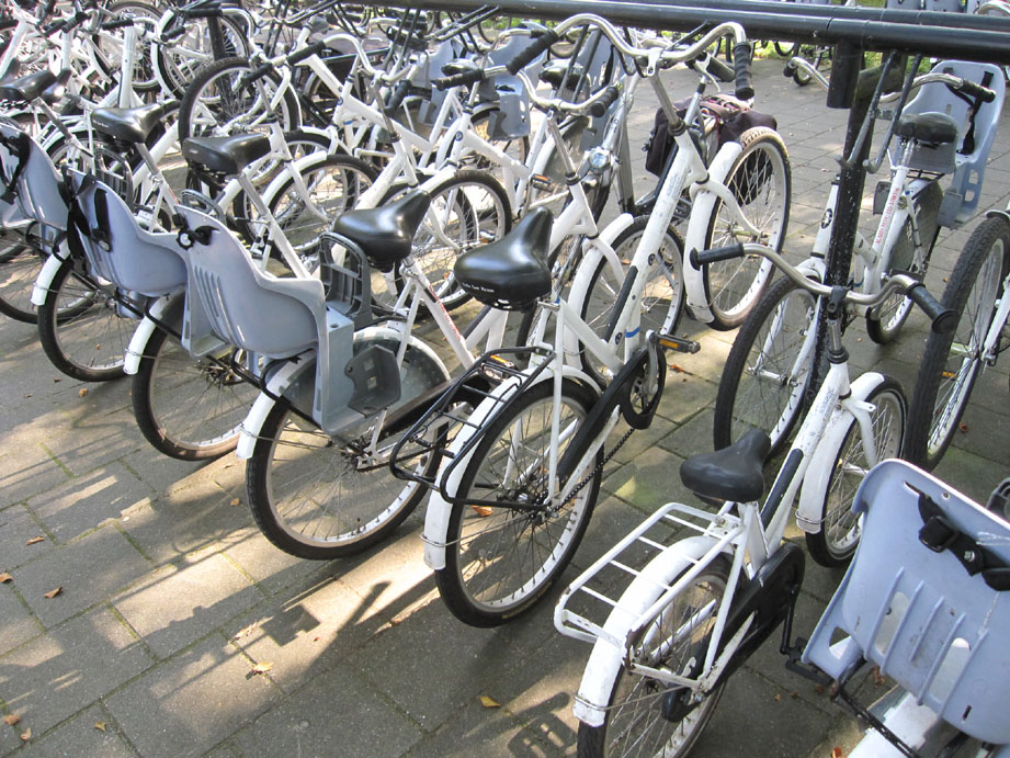 white bikes are free at park